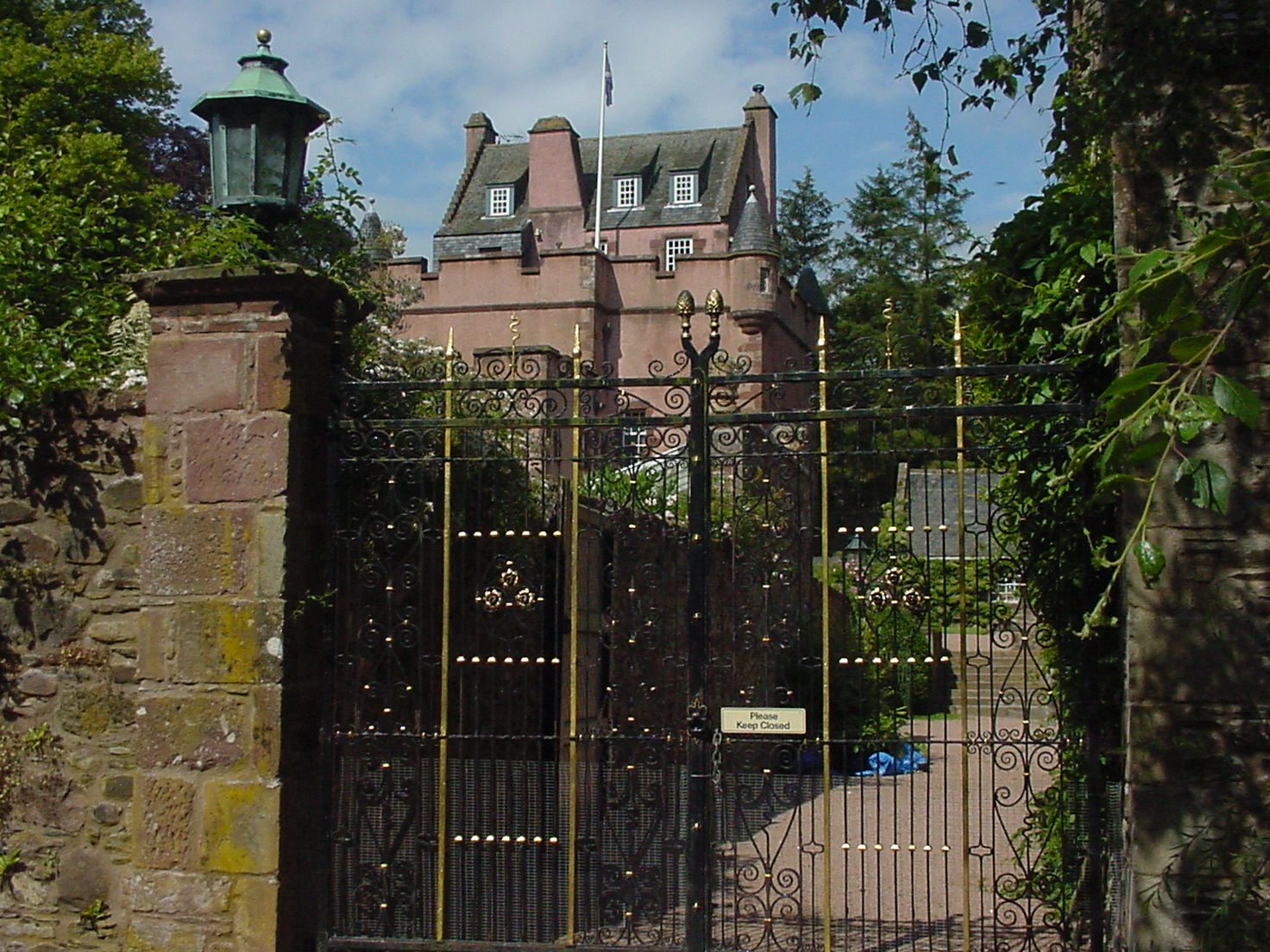 This is a photograph of Towie Barclay Castle in Aberdeenshire, Scotland.